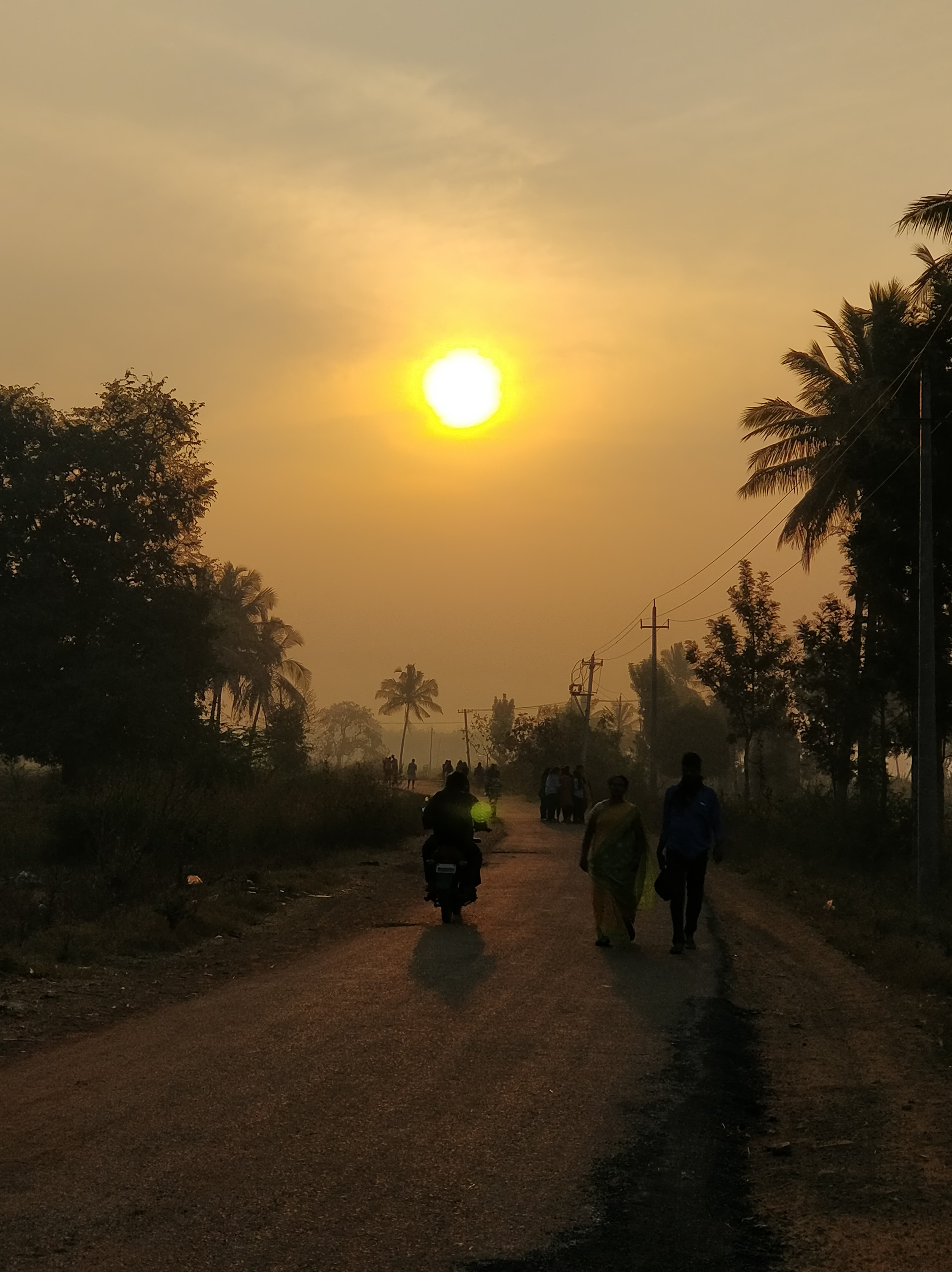 Use of technology to capture good moments